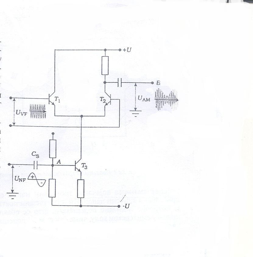 AM Signal generator